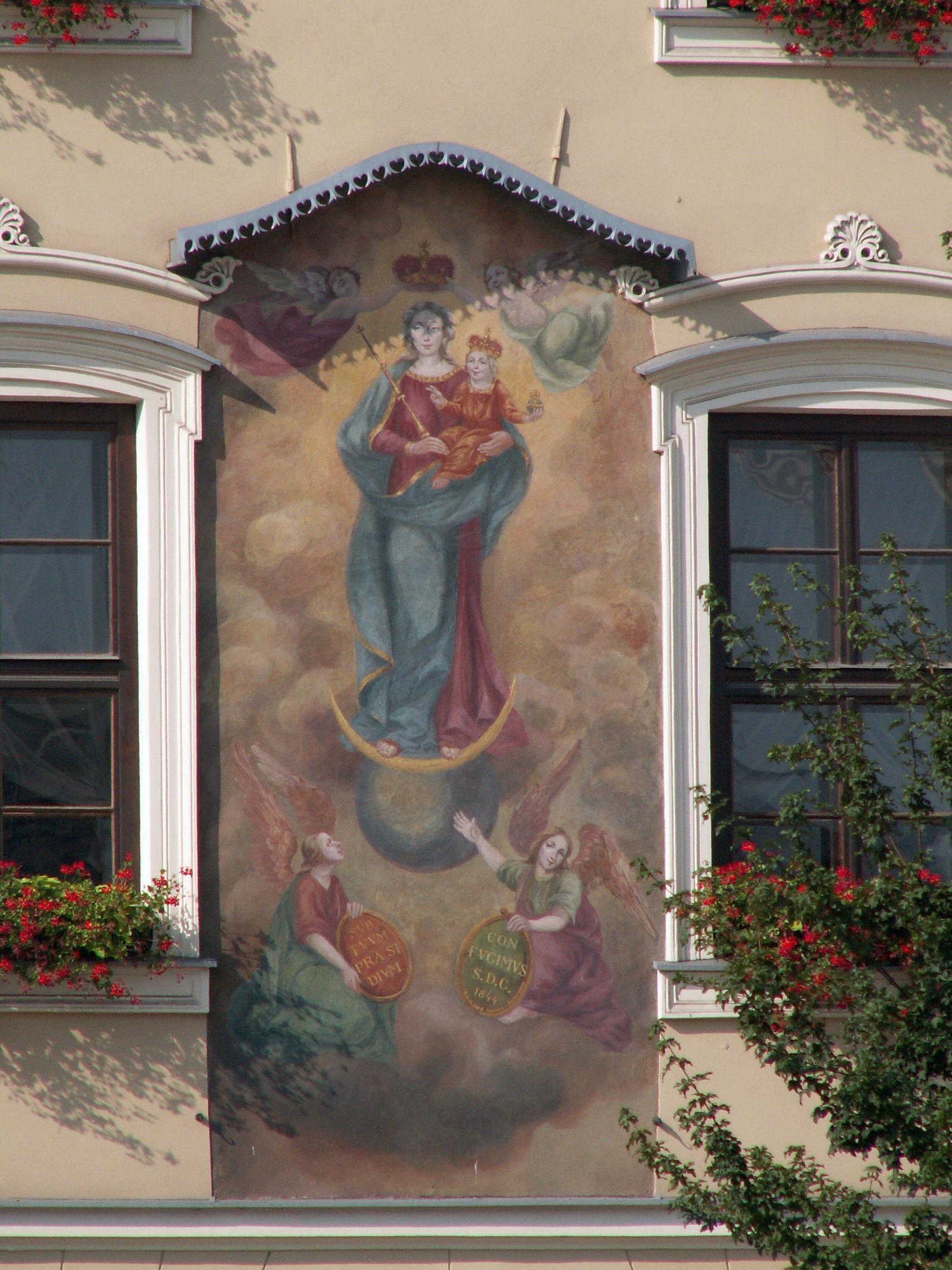 Pod Obrazem house (image of Our Lady) , 19,Main Market Square, Old Town ,Krakow,Poland